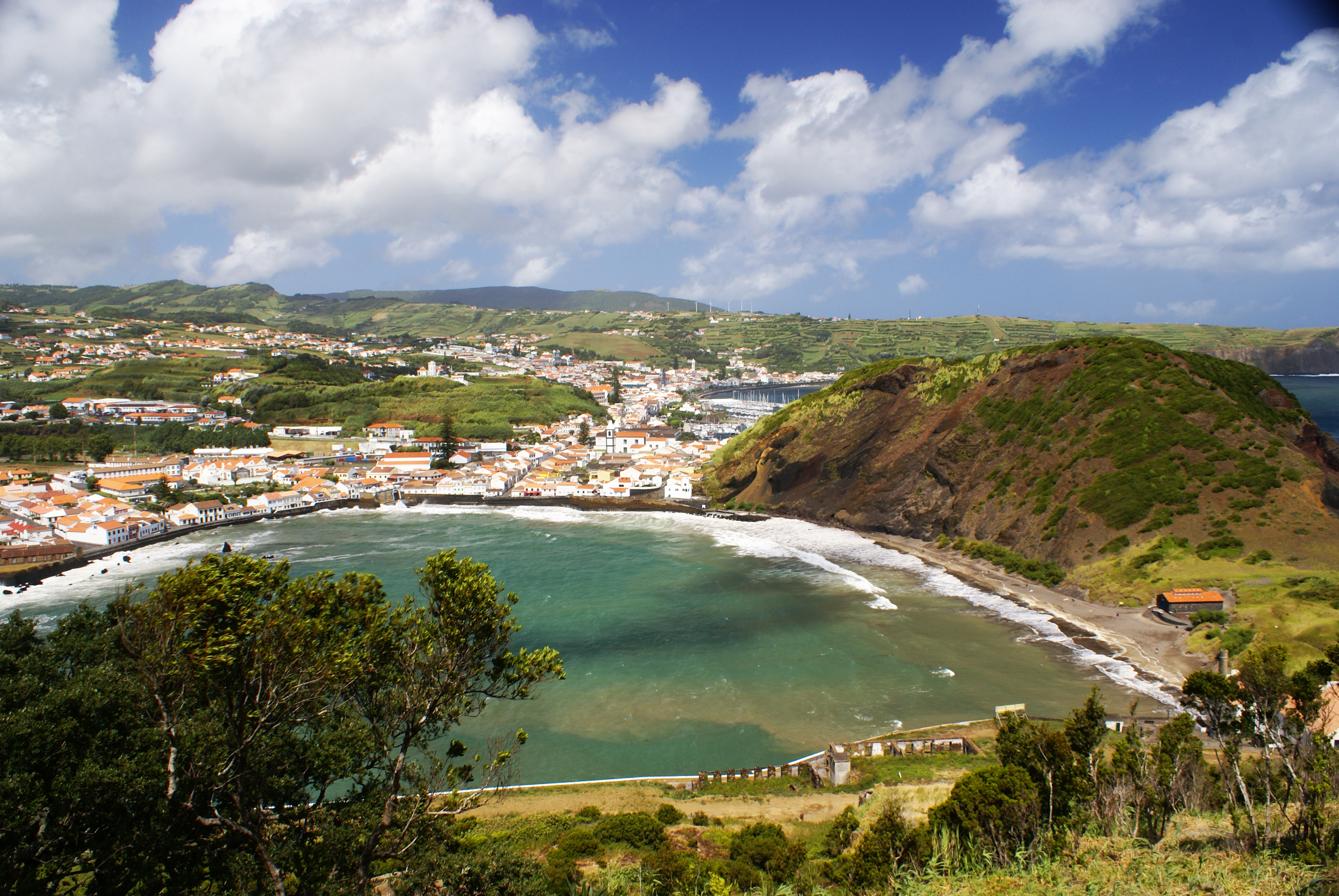 Baía do Porto Pim vista apartir Monte da Guia, Concelho da Horta, ilha do Faial, Açores, Portugal